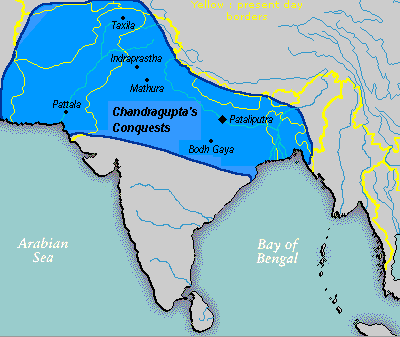 Chandragupta Maurya's empire in 305 BC after his conflict with Seleucus Nicator.